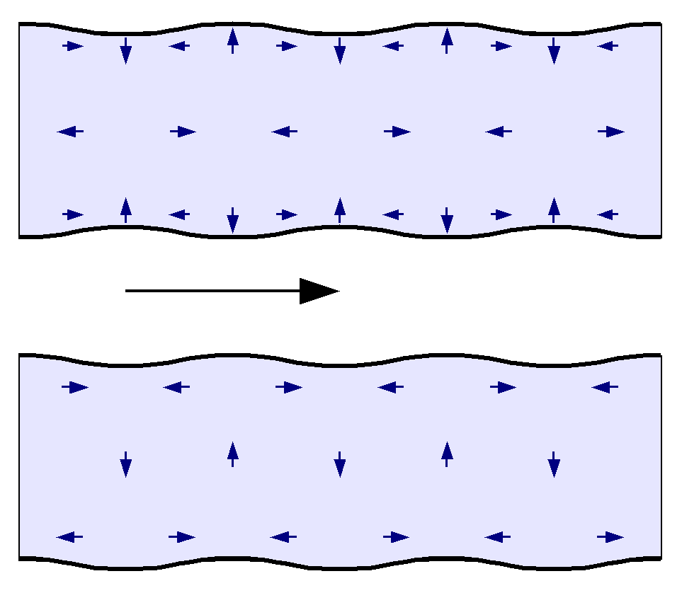 Lamb wave (schematic)